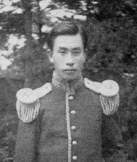 Ujihiro Iga